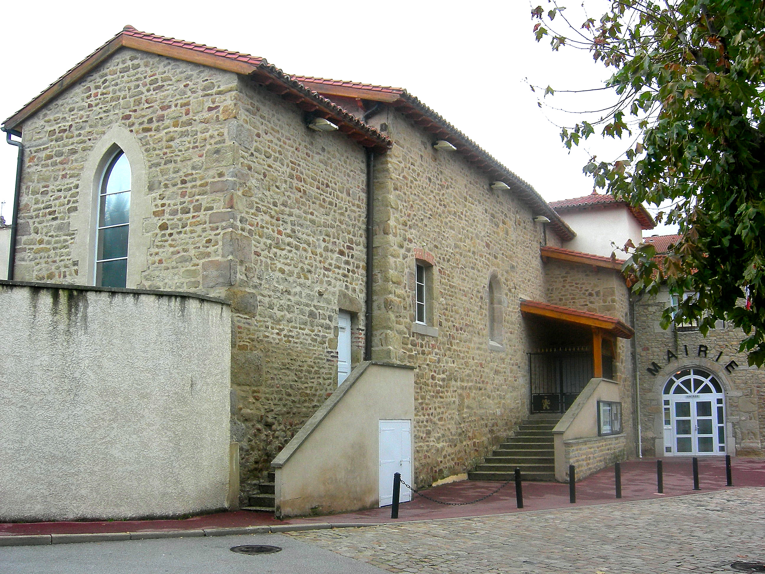 Villars, Loire, France - The church of Saint-André.